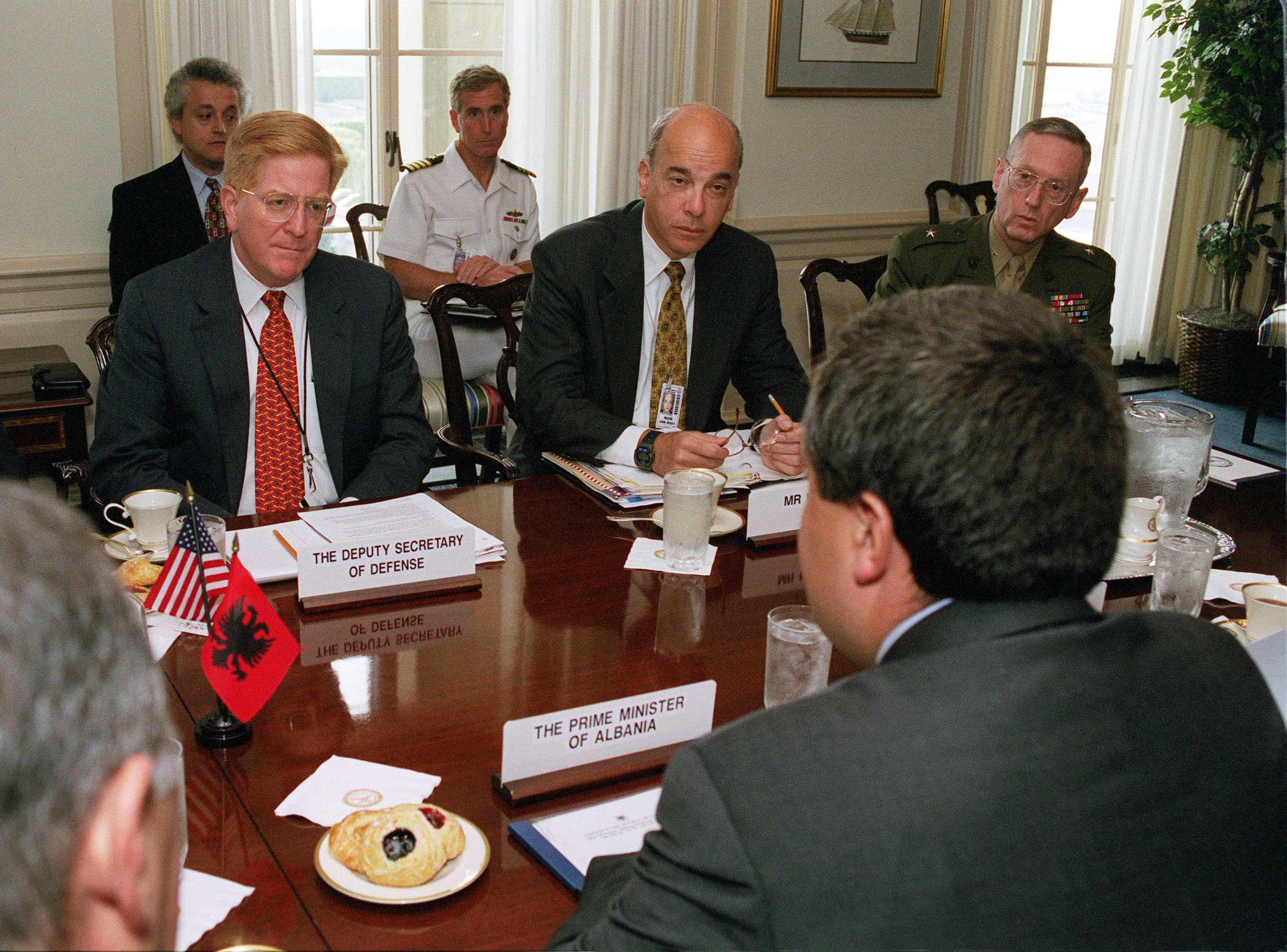 Deputy Secretary of Defense Rudy de Leon (left) meets with Albanian Prime Minister Ilir Meta (foreground) in the Pentagon on Aug. 24, 2000, to discuss regional security issues. Joining de Leon and Meta in the security talks are Assistant Secretary of Defense for International Security Affairs Frank Kramer (center) and Brig. Gen. James Mattis (right), U.S. Marine Corps, senior military assistant to de Leon.